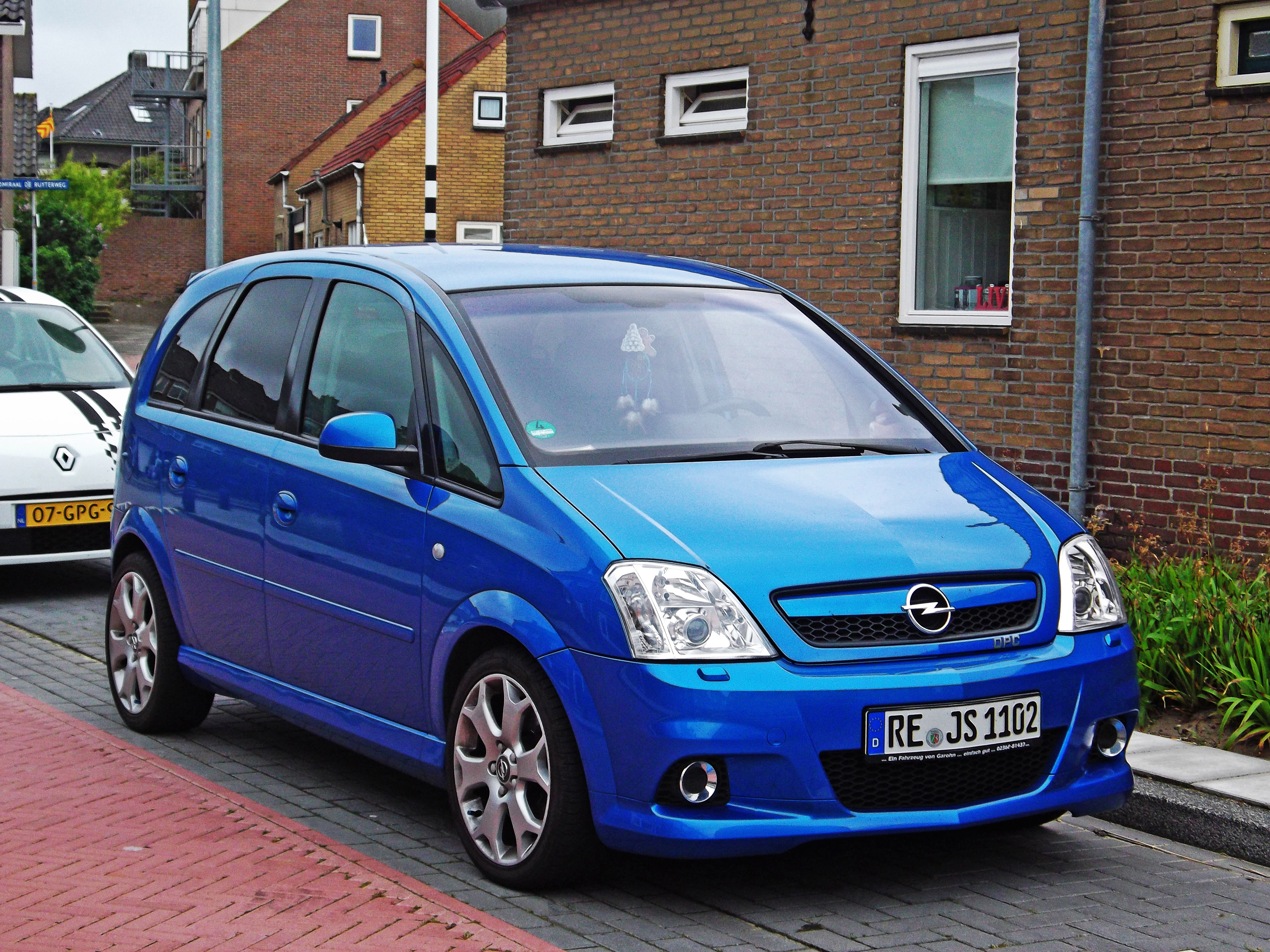 German license plates.